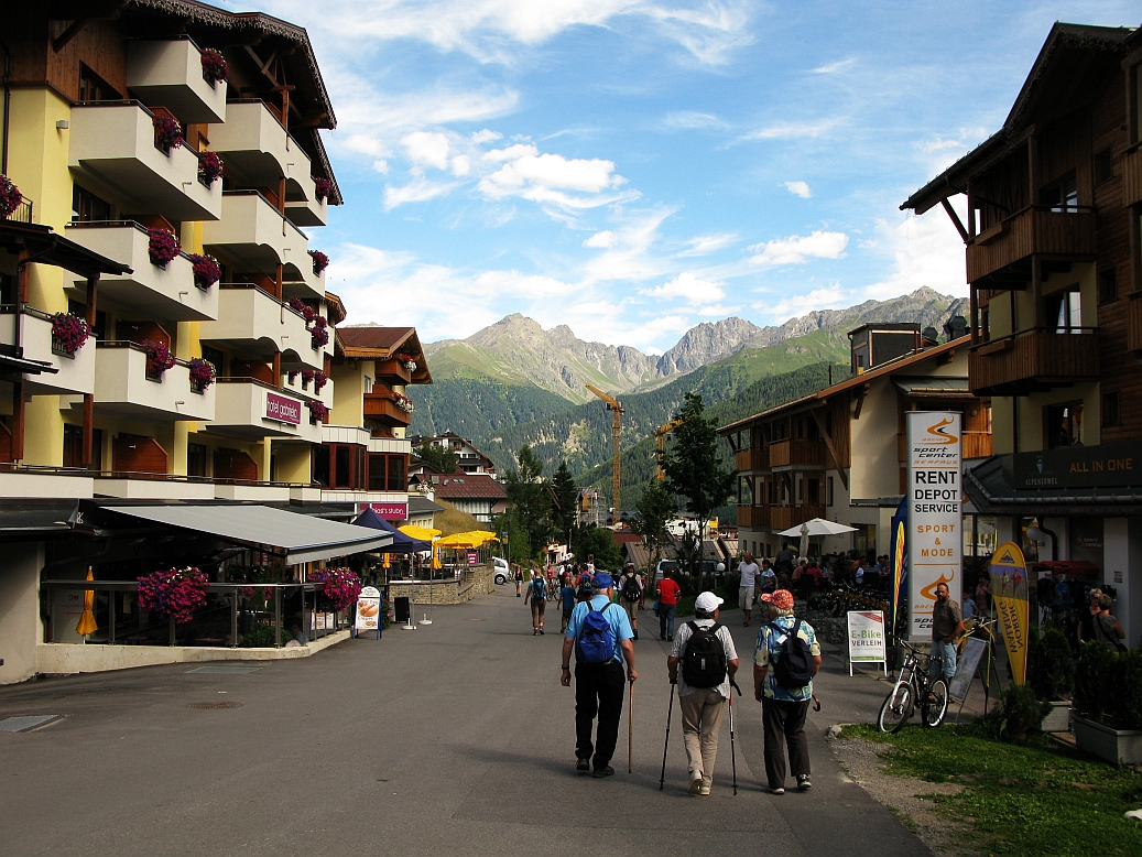 Serfaus main street Dorfbahnstrasse